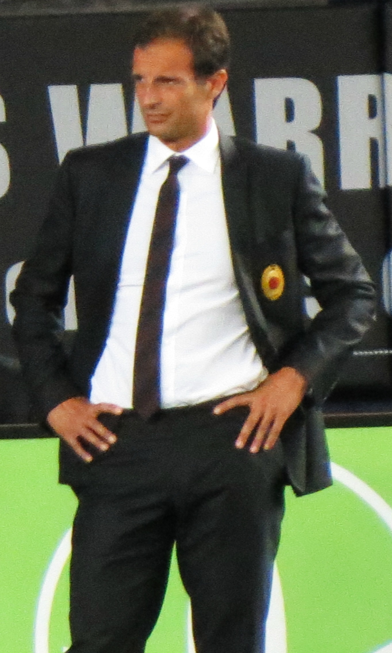 Massimiliano Allegri as manager of A.C. Milan in the 2012 World Football Challenge.